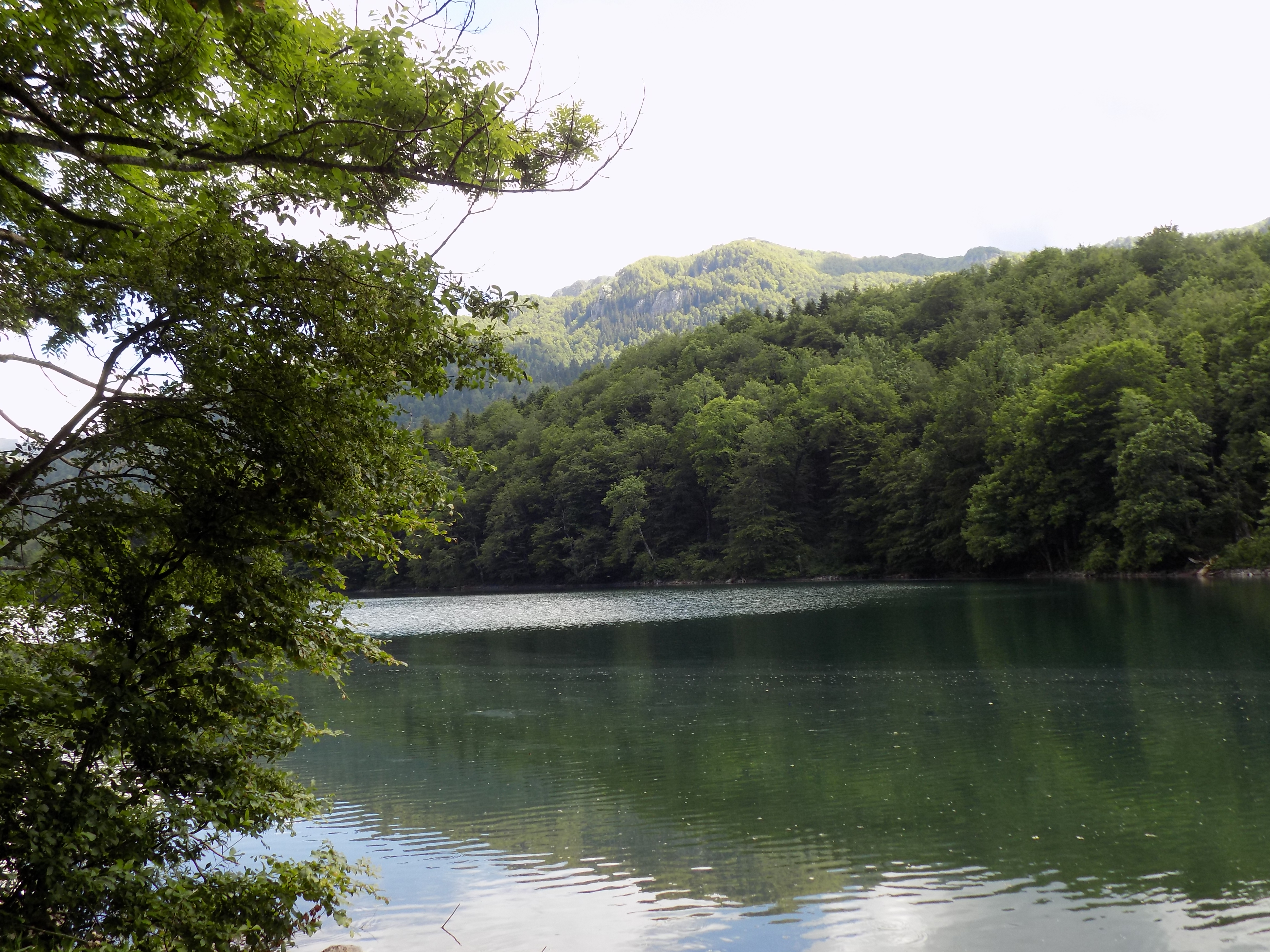 Biogradska Gora National park, the oldest protected natural resource in Montenegro